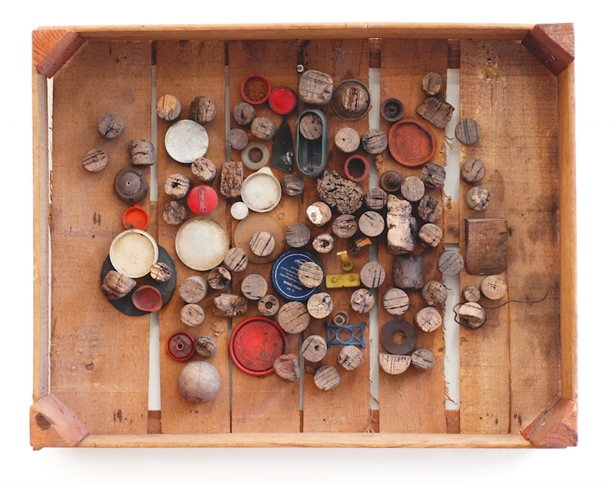 Art work by Jan Henderikse, a wooden crate filled with mixed media